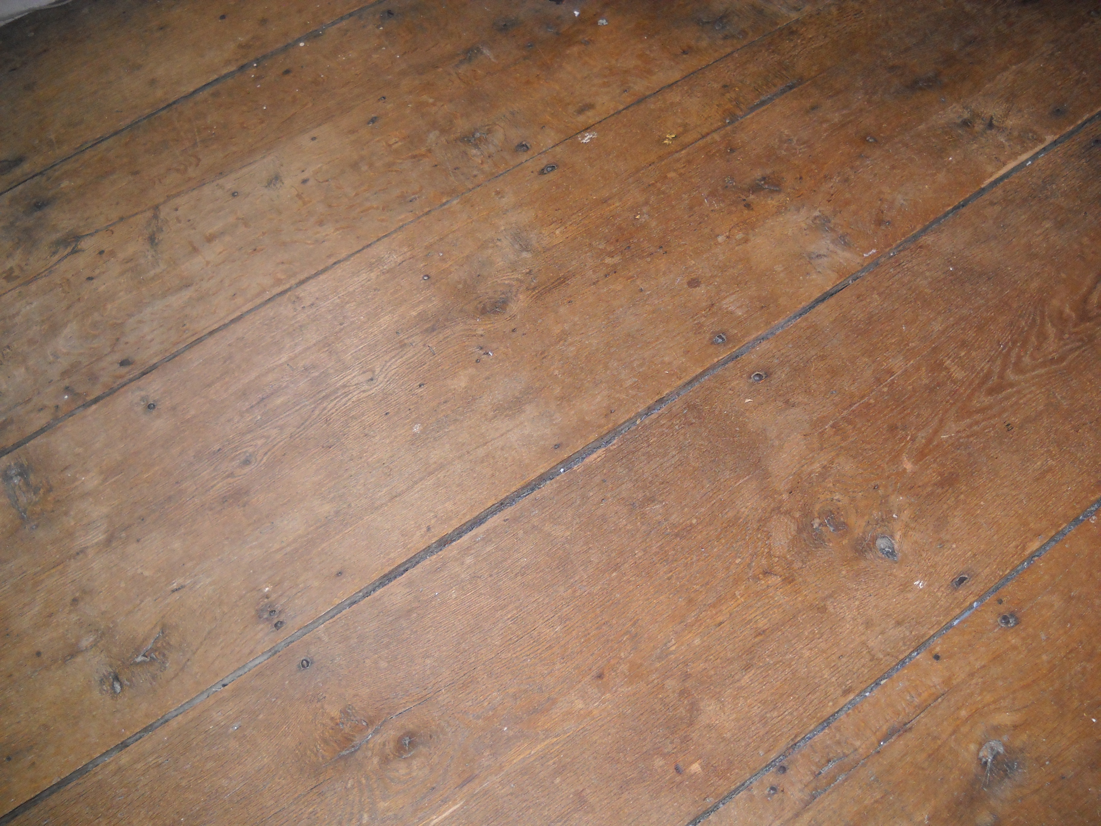 Image of Ephraim Hawley House circa 1670 original quarter-sawn oak flooring.